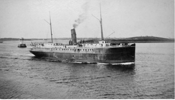 SS Yarmouth (ship, 1887) leaving Yarmouth Harbour. Bunker Island is at right. (PH–62–Yarmouth–1.2 YCMA)